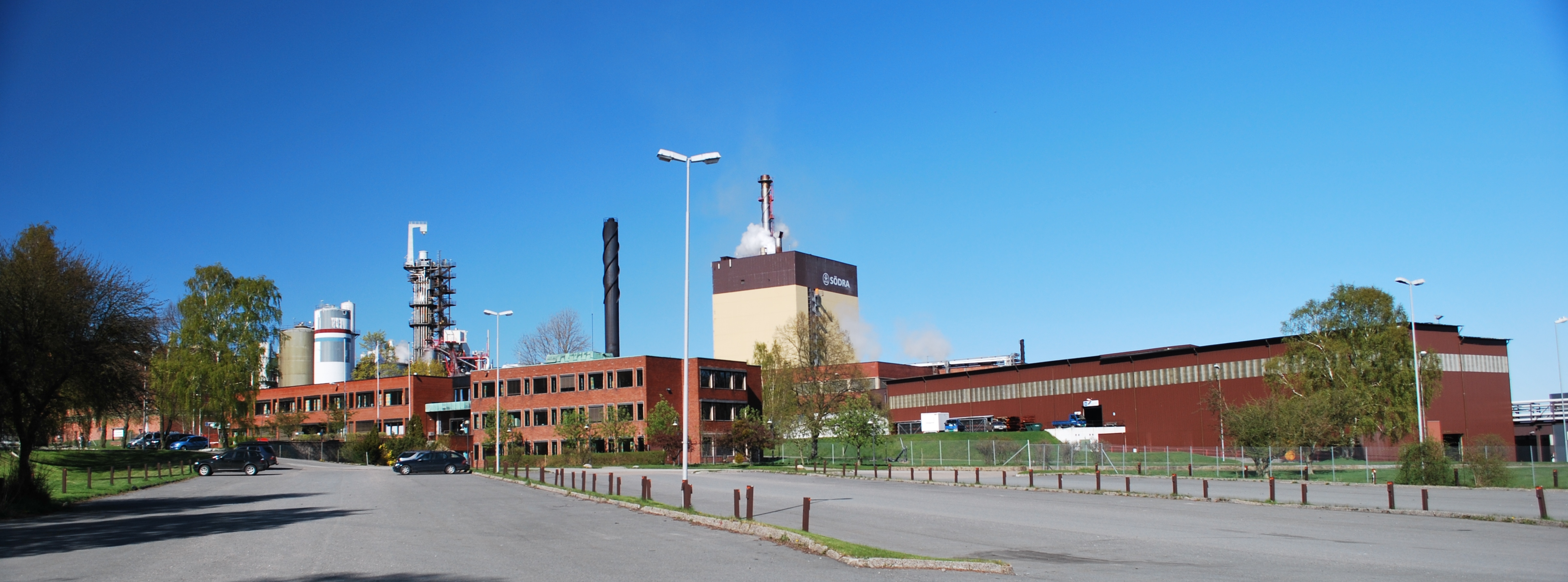 Sødra Cell factory, Tofte